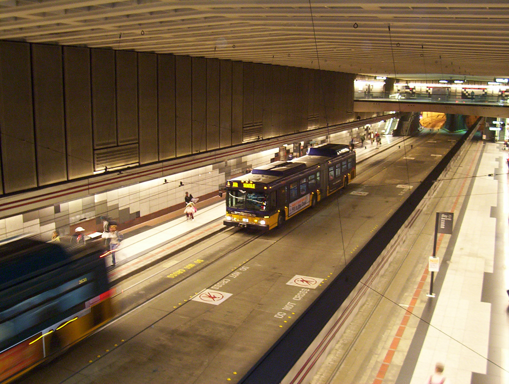 University Street Station in Seattle, taken by SarekOfVulcan on September 20, 2005. Diesel/electric hybrid bus